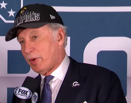 In 2019